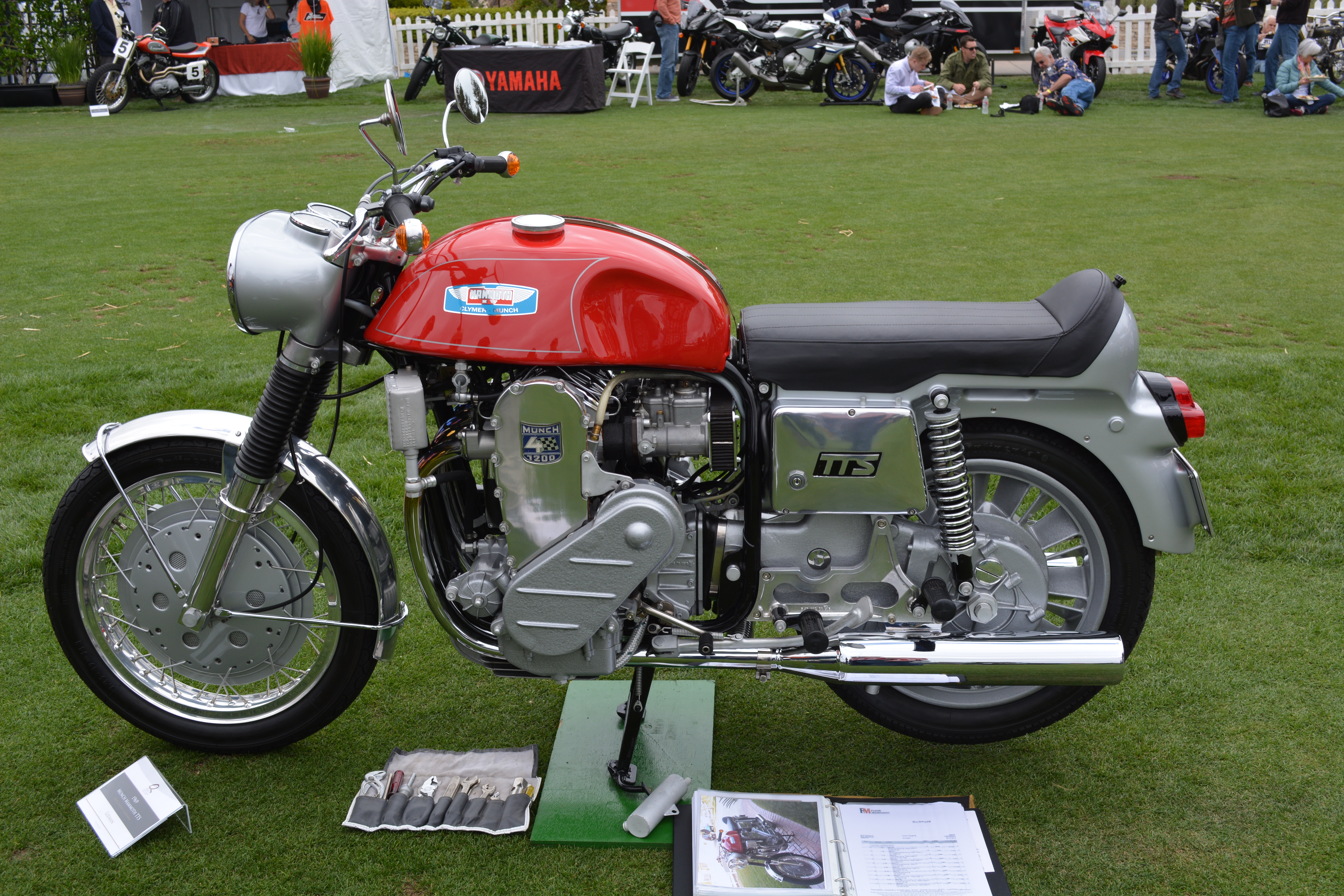 The Quail Motorcycle Gathering 2015, Carmel by the Sea, CA